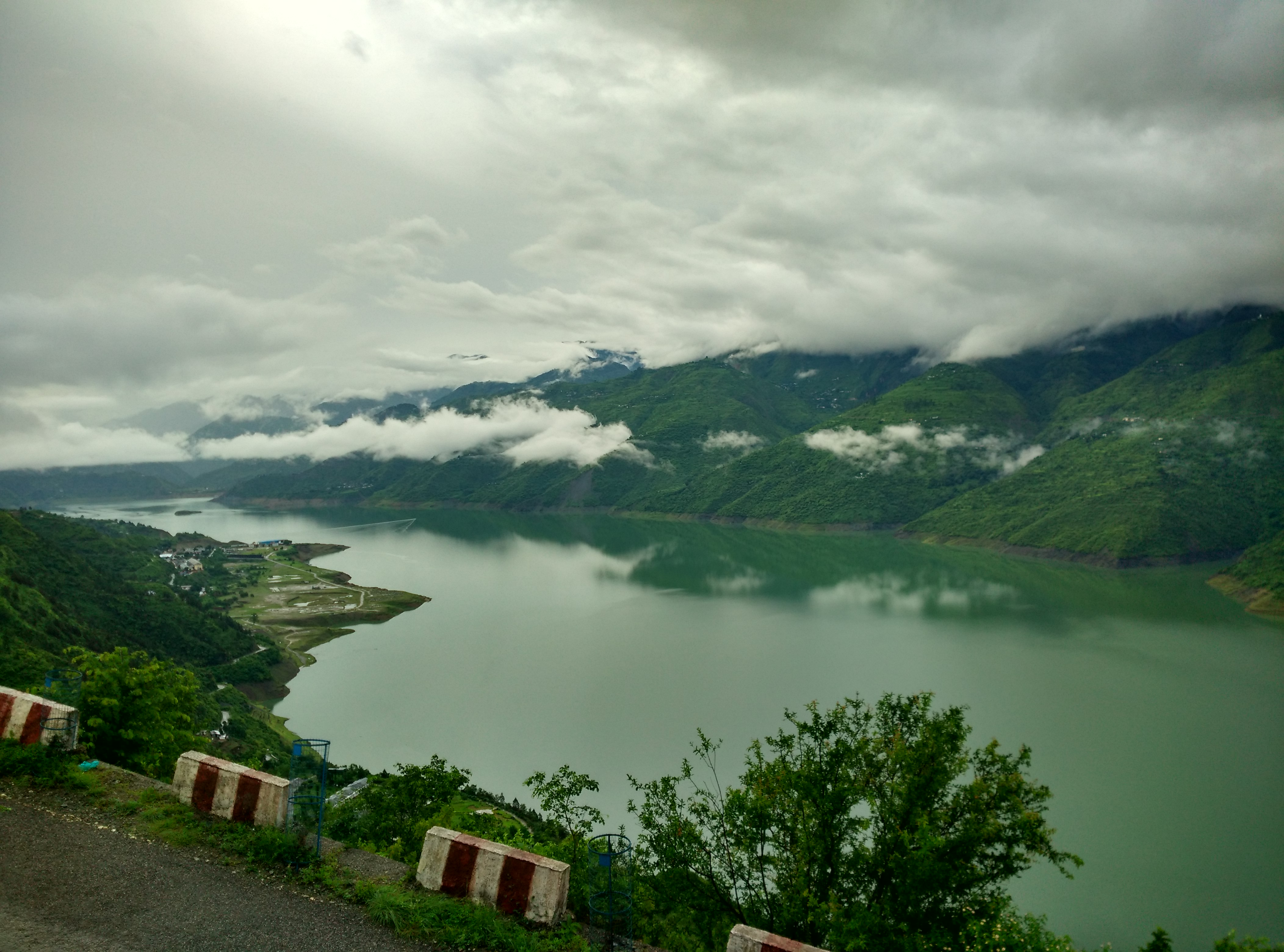 It is a place situated in new tehri uttrakhand a fabulous and fantastic place to see the nature closley